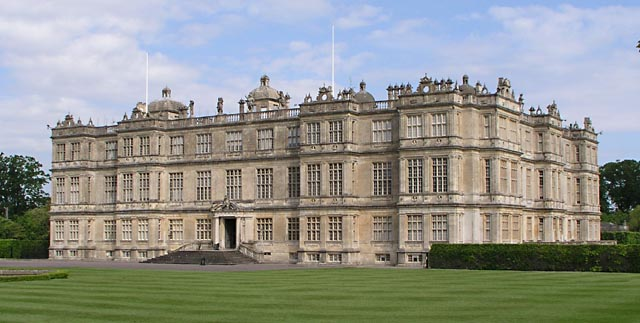 Longleat House, Warminster Home to Lord Bath and Longleat Safari Park